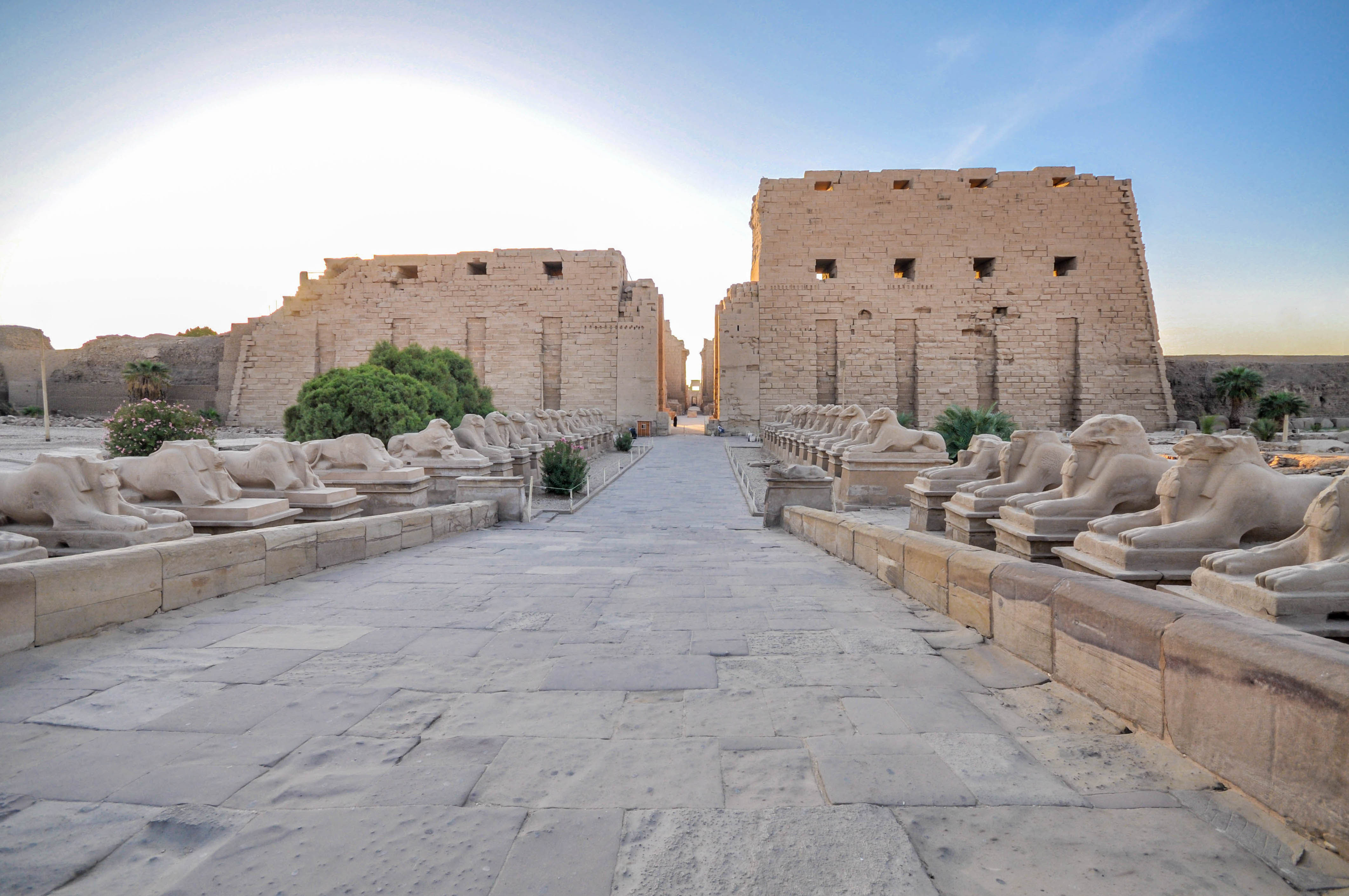 The temple of Karnak was known as Ipet-isut (Most select of places) by the ancient Egyptians. It is a city of temples built over 2000 years and dedicated to the Theben triad of Amun, Mut and Khonsu. This derelict place is still capable of overshadowing many of the wonders of the modern world and in its day must have been awe inspiring. For the largely uneducated ancient Egyptian population this could only have been the place of the gods. It is the mother of all religious buildings, the largest ever made and a place of pilgrimage for nearly 4,000 years, although todays pilgrims are mainly tourists. It covers about 200 acres 1.5km by 0.8km Karnak Reconstruction The area of the sacred enclosure of Amon alone is 61 acres and would hold ten average European cathedrals.The great temple at the heart of Karnak is so big, St Peter's, Milan and Notre Dame Cathedrals could be lost within its walls. The Hypostyle hall at 54,000 square feet with its 134 columns is still the largest room of any religious building in the world. In addition to the main sanctuary there are several smaller temples and a vast sacred lake